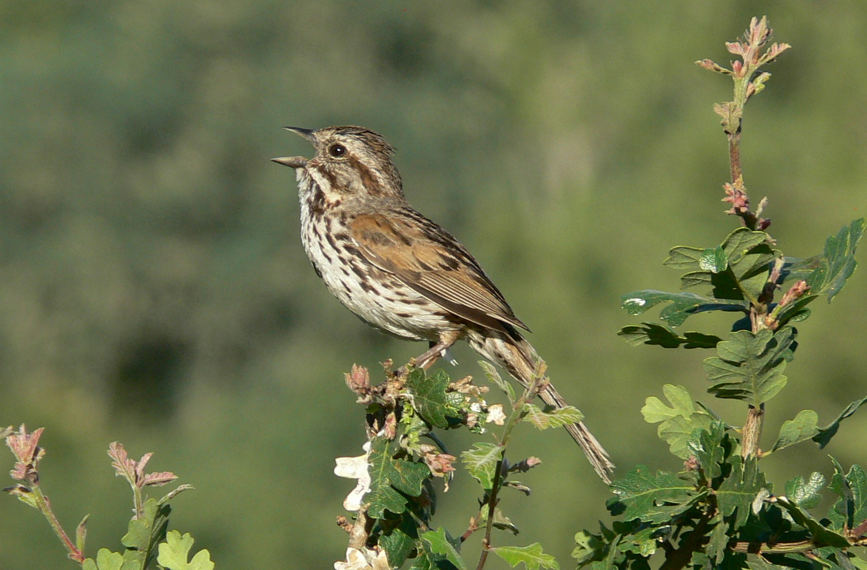 Melospiza melodia Song Sparrow doing his thing.